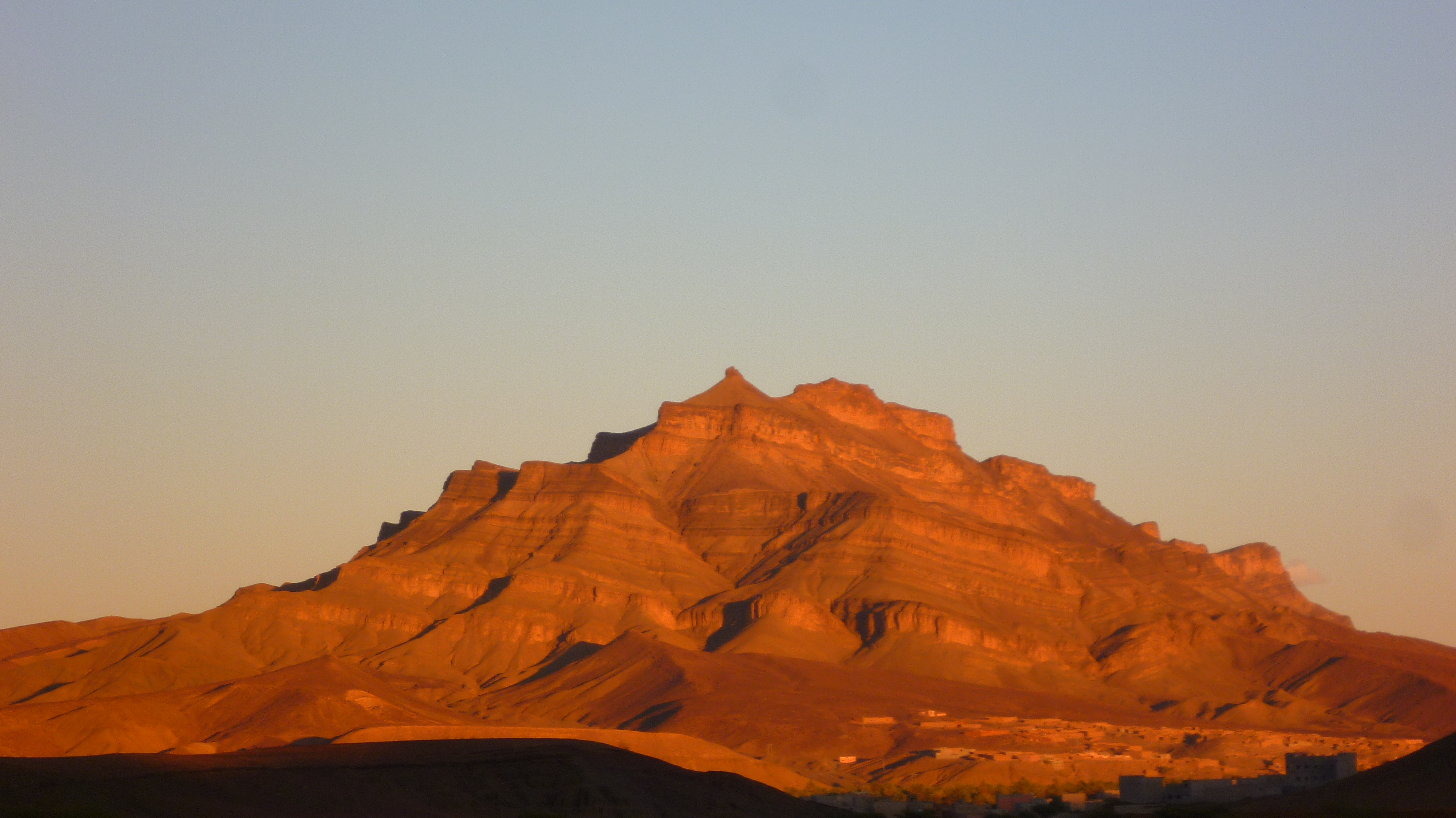 Agdz au Maroc